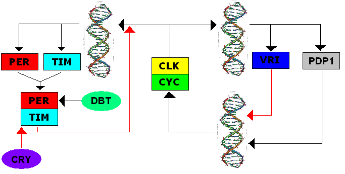 An overview of the most important genes and proteins in the biological clock of Drosophila melanogaster. The DNA molecule is modified from DNA Overview by Michael Ströck, released under GFDL and published on Commons. PER=Period, TIM=Timeless, CLK=Clock, CYC=Cycle, VRI=Vrille, PDP1=PAR Domain Protein 1ε, DBT=Doubletime, CRY=Cryptochrome